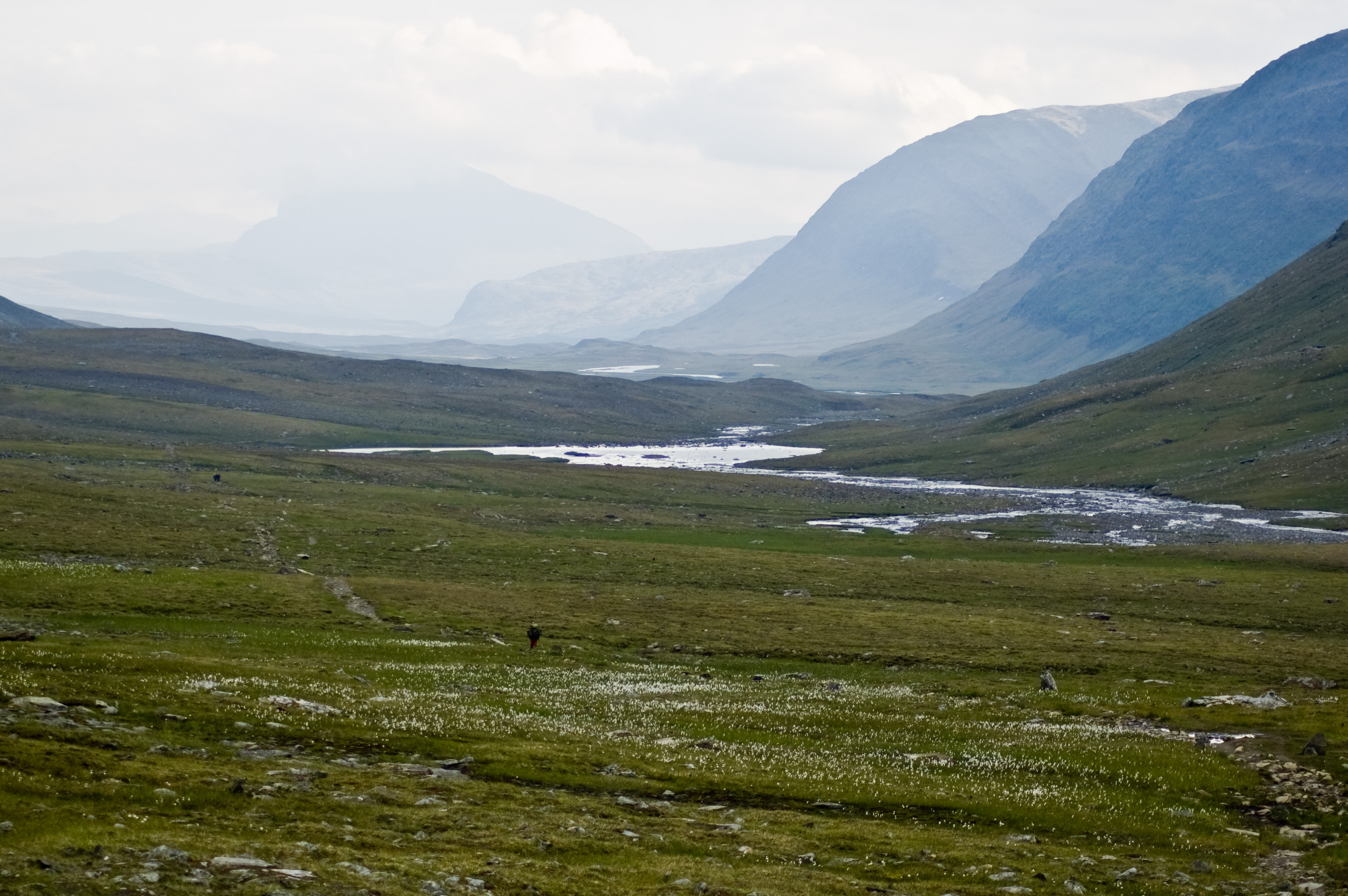 The kungsleden trail in swedish lapland, seen from its highest point, the Tjäkta Pass.